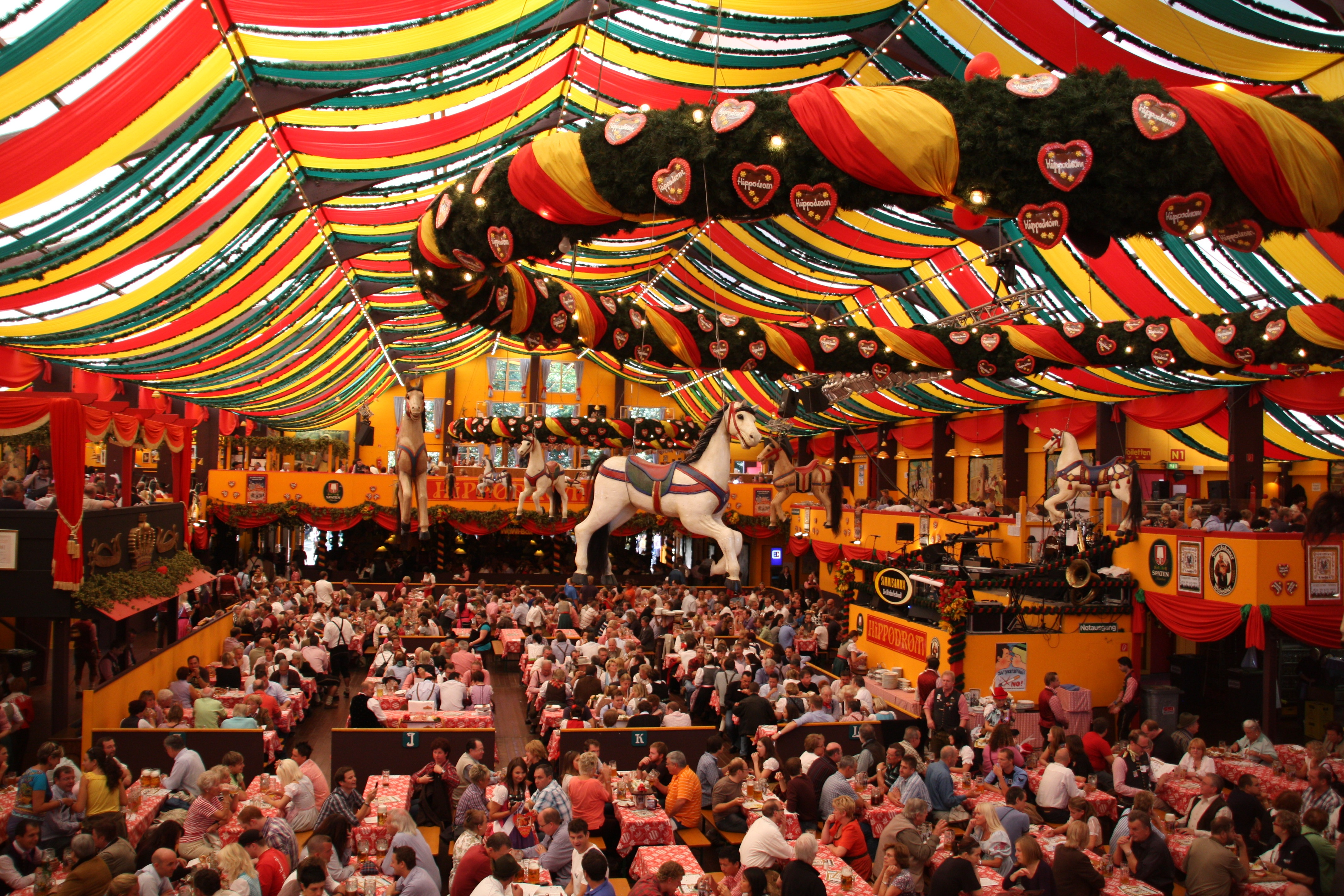 Inside the Hippodrom tent at the Oktoberfest 2010